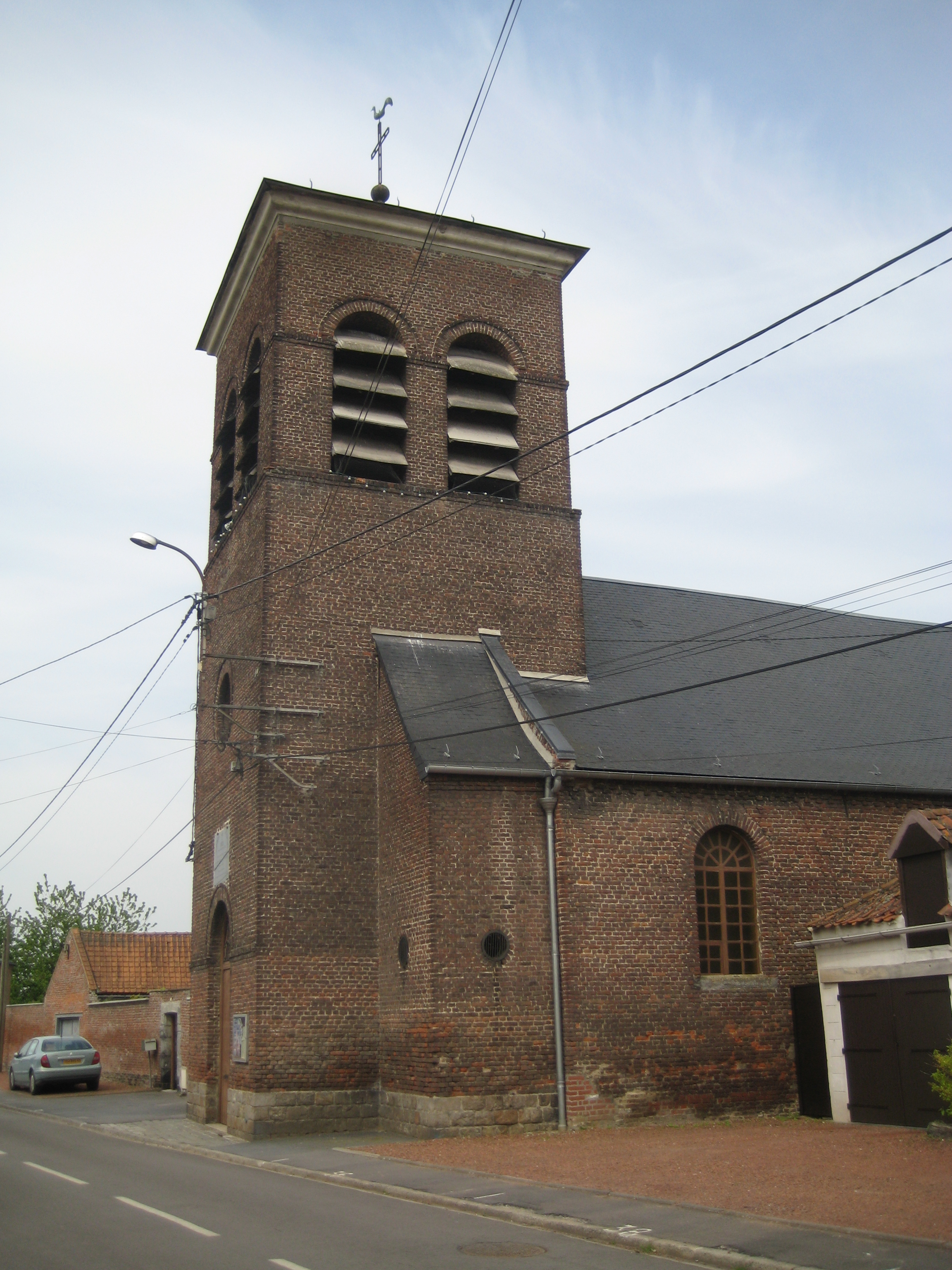 church of Saint-Aybert, Nord, France